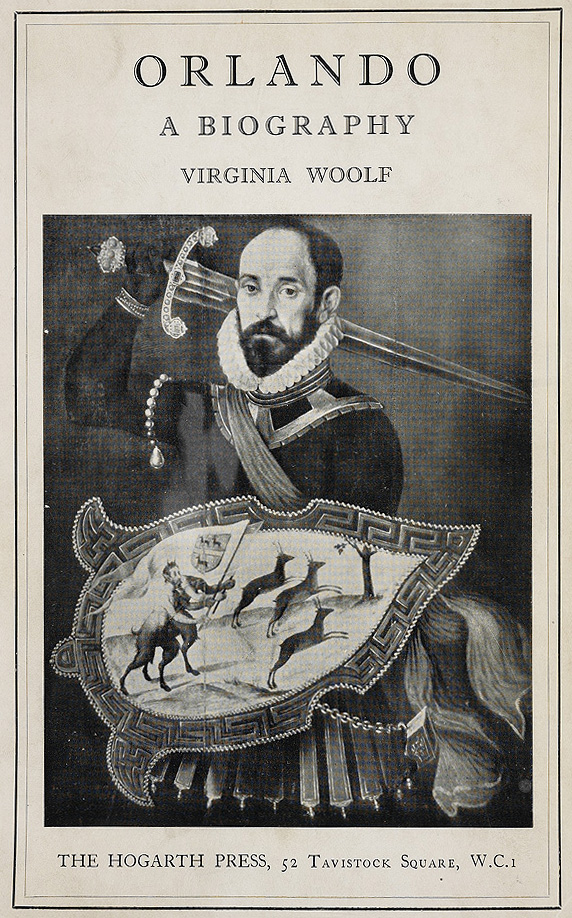 It's a cover from the original Woolf's Orlando